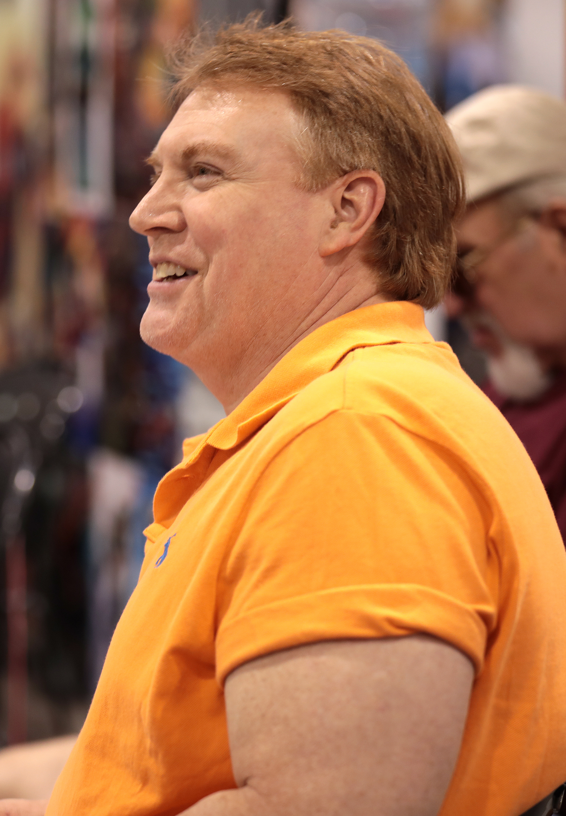 Greg Land speaking at the 2019 Phoenix Fan Fusion in Phoenix, Arizona.